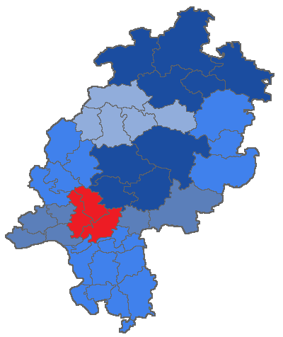 Map of the district court Frankfurt/Main in Hesse